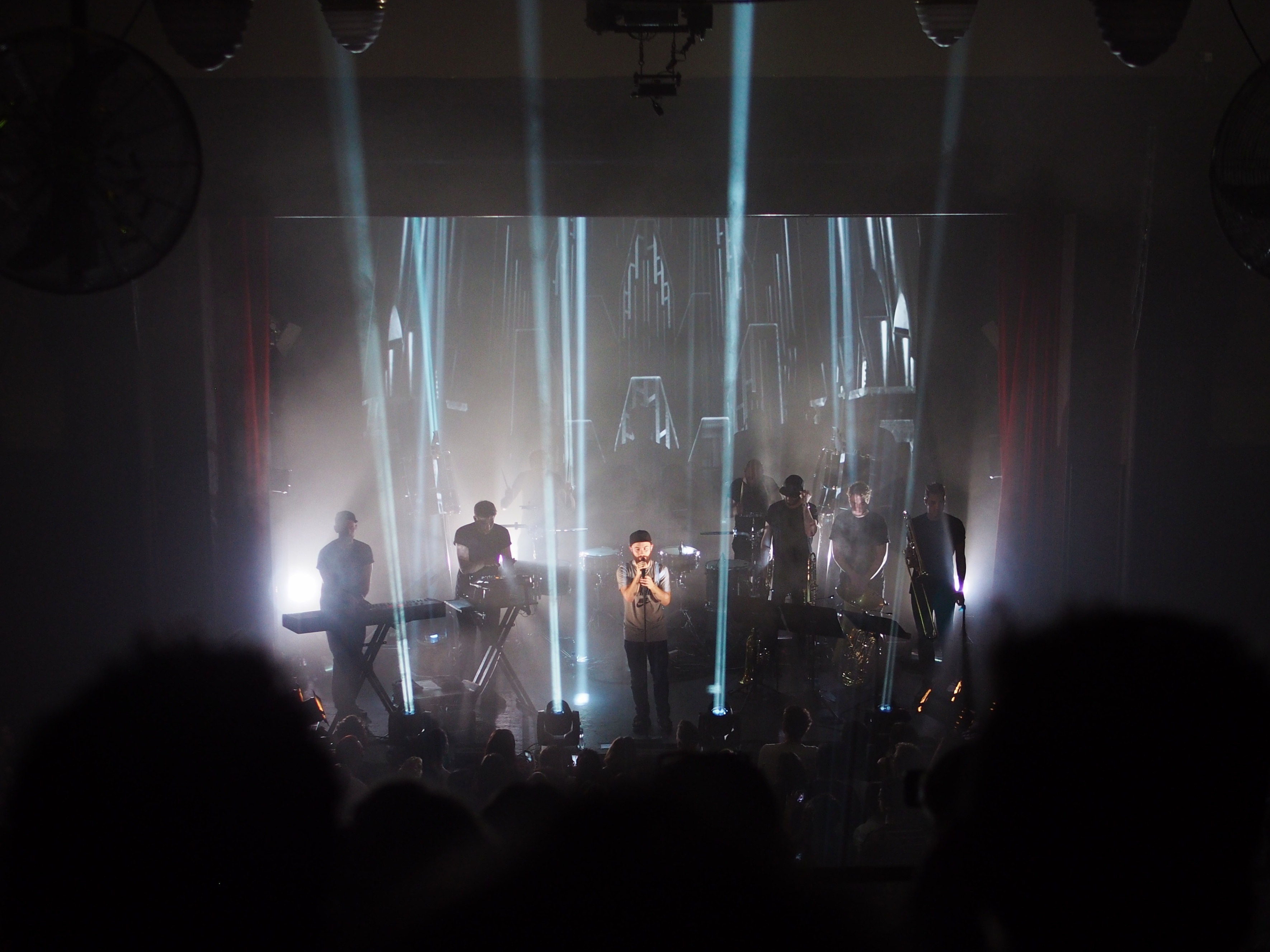 Woodkid (Yoann Lemoine) performing live at the Kaufleuten Klub in Zurich, April 12, 2013.